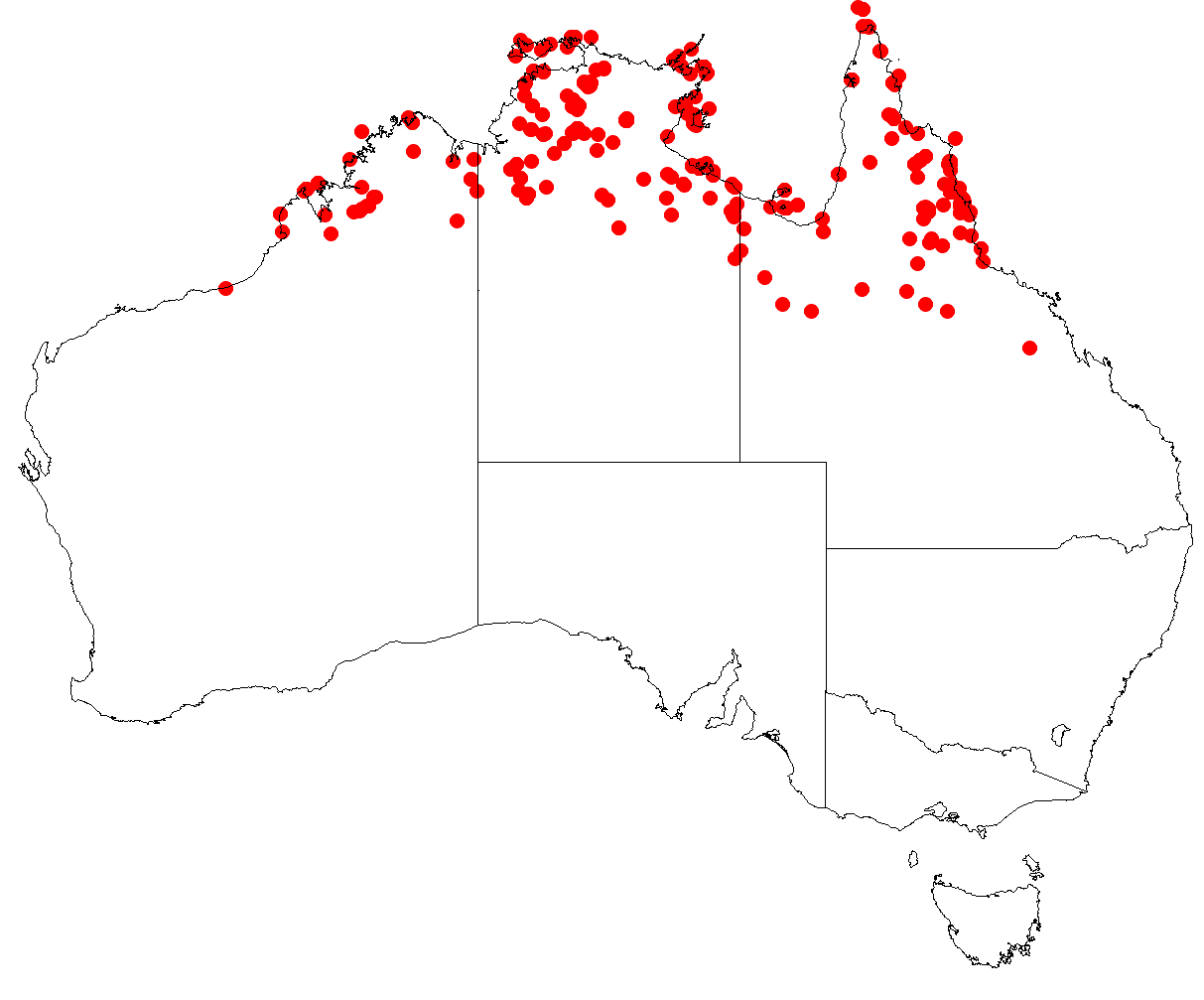 Australian distribution of Amyema villiflora based on download from Australasian Virtual Herbarium May 9, 2018